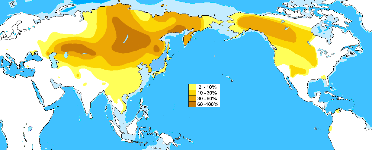 Updated image at to reflect the occurrence of C-M217 Y-DNA in rather large percentages of samples from Vietnam as mentioned in the text of the article in which this image is displayed.